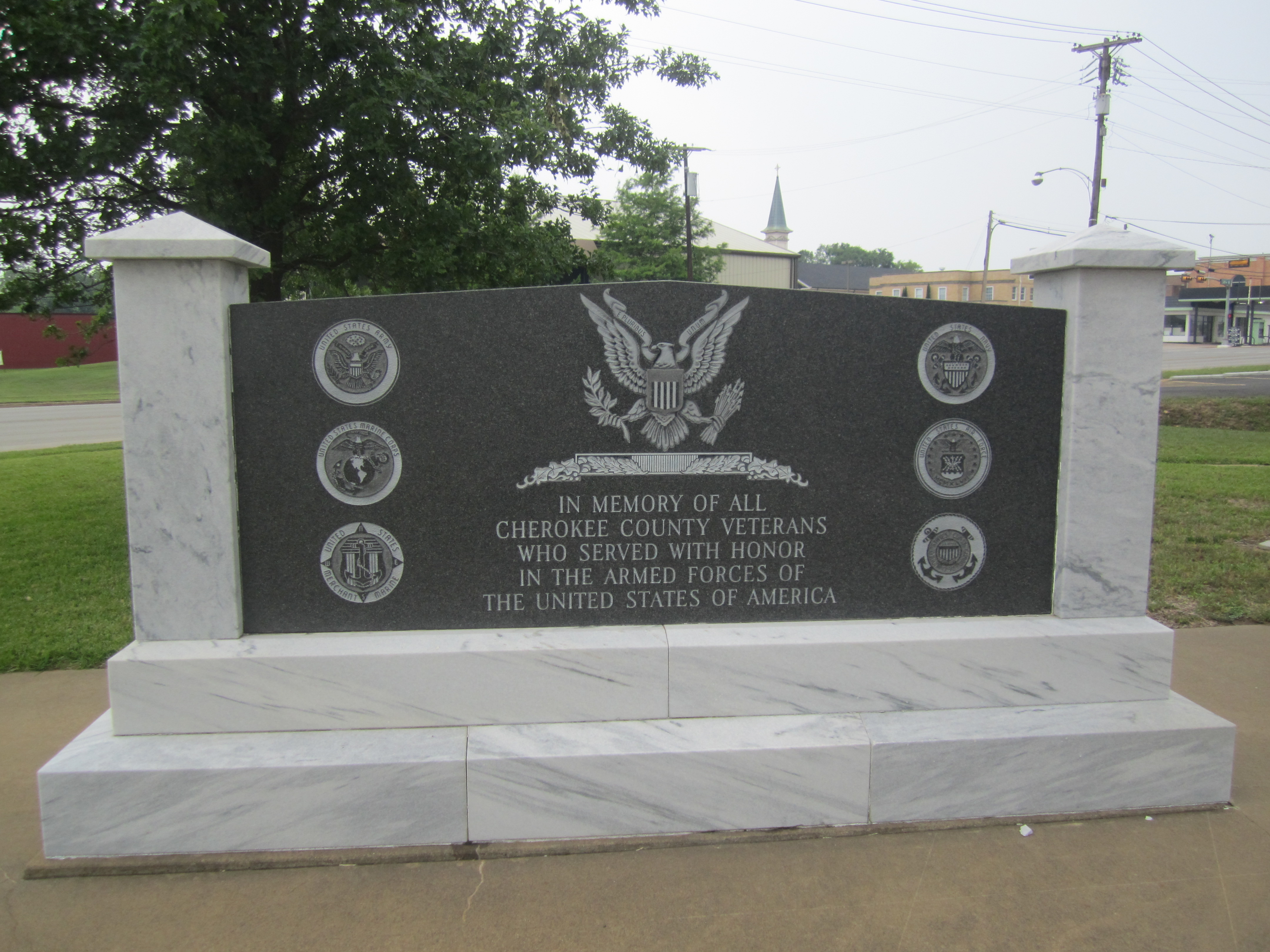 I took photo with Canon camera in Jacksonville, TX.